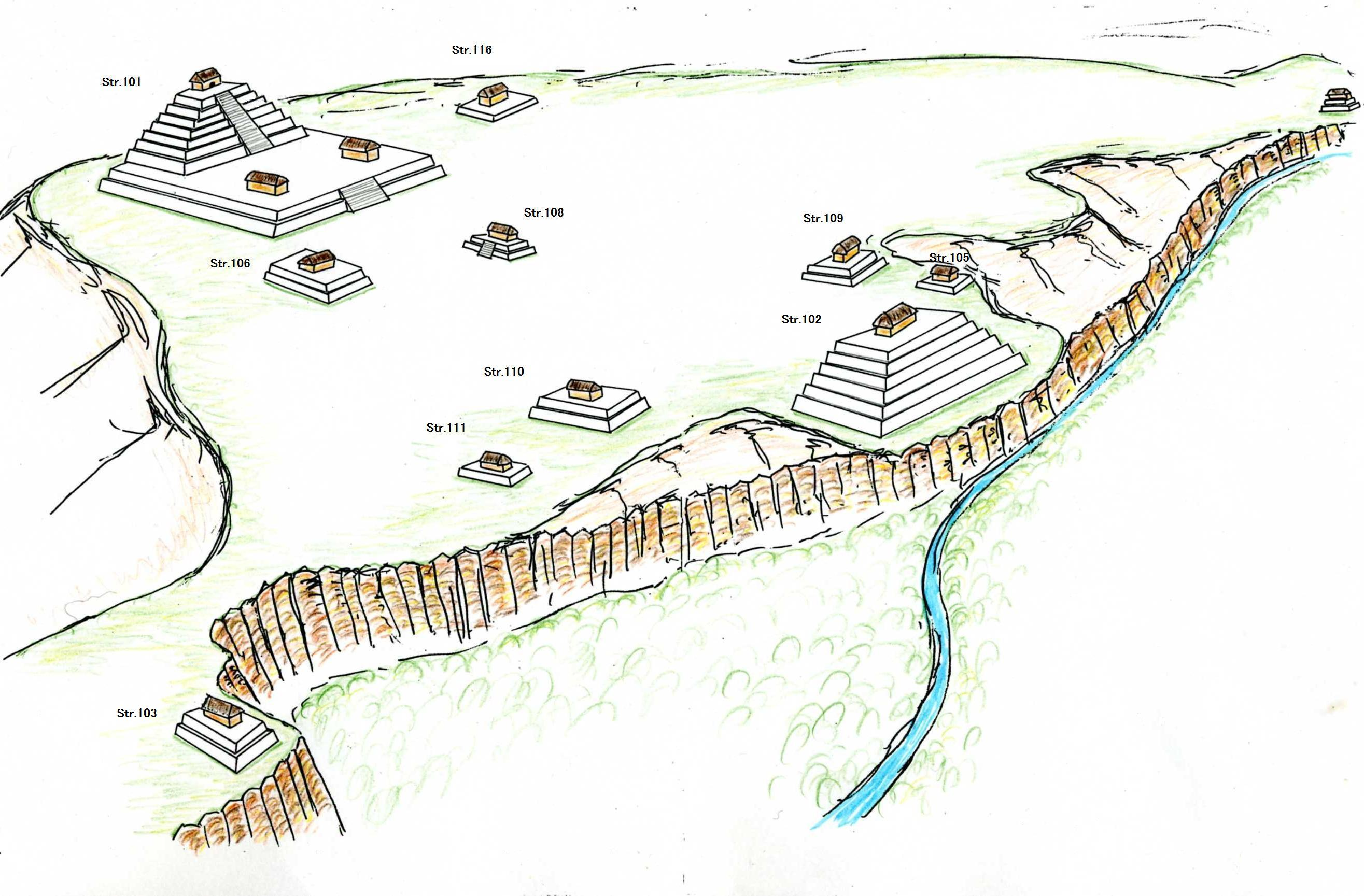 Southeast aerial view of Yarumela